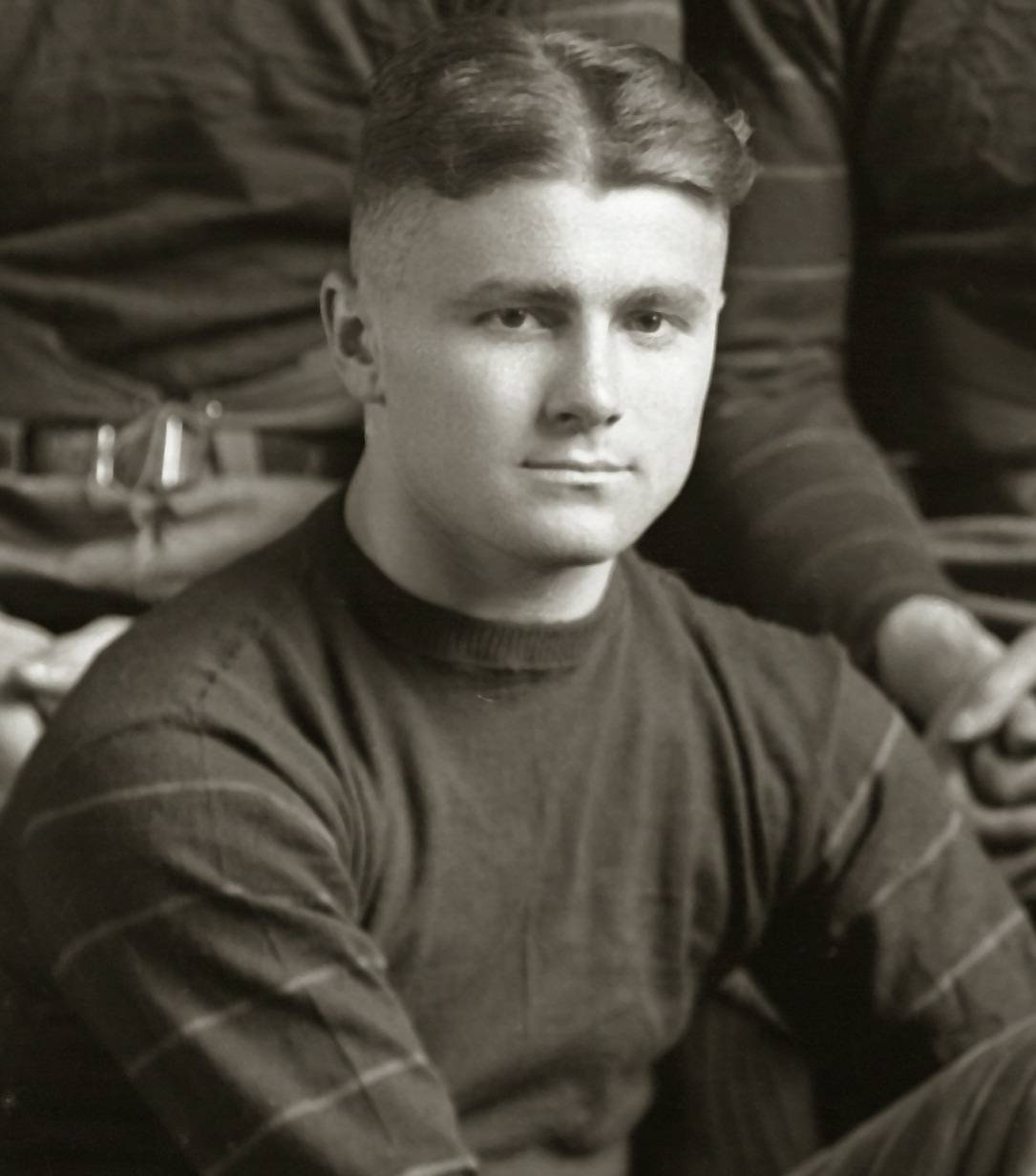 Photograph of Ted Bank